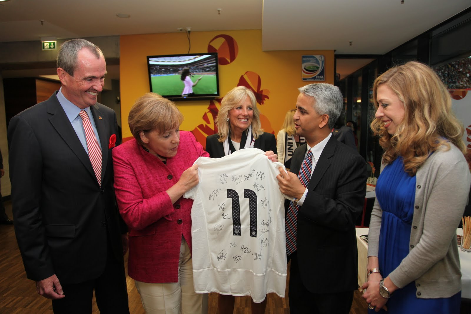 Sunil Gulati, president of the United States Soccer Federation, with U.S. Ambassador to Germany Philip D. Murphy and Jill Biden and Chelsea Clinton, present a shirt with autographs of the U.S. women’s national soccer team to Chancellor of Germany Angela Merkel during the 2011 FIFA Women’s World Cup final in Frankfurt, Germany, on July 17, 2011. [State Department photo/ Public Domain]